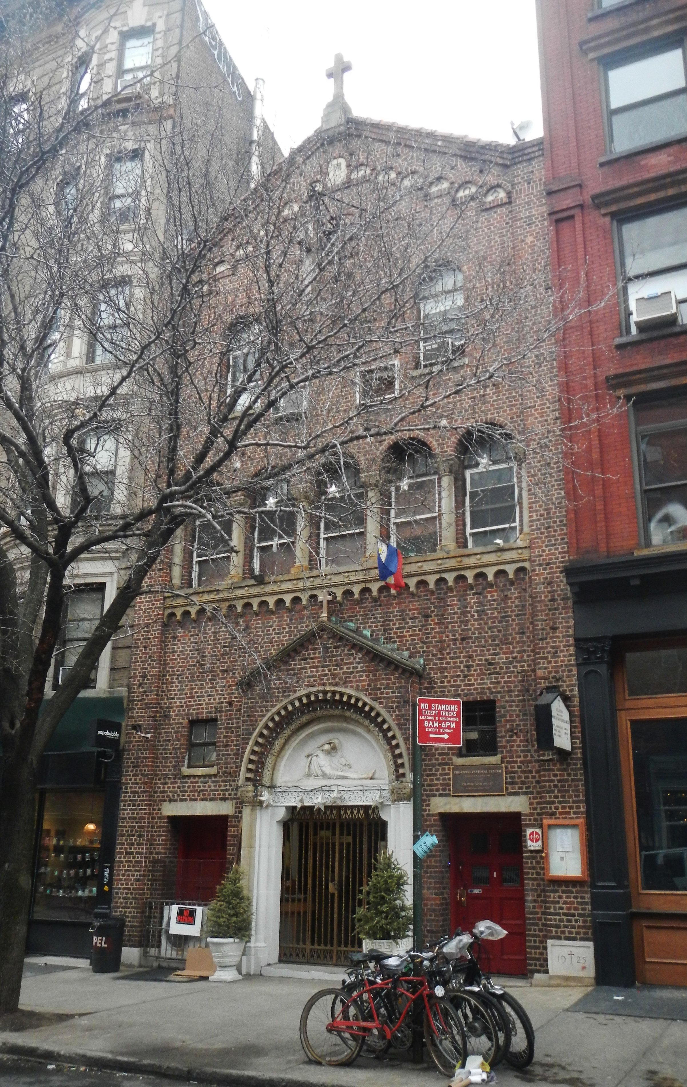 Looking north at Ruiz church on a cloudy day.